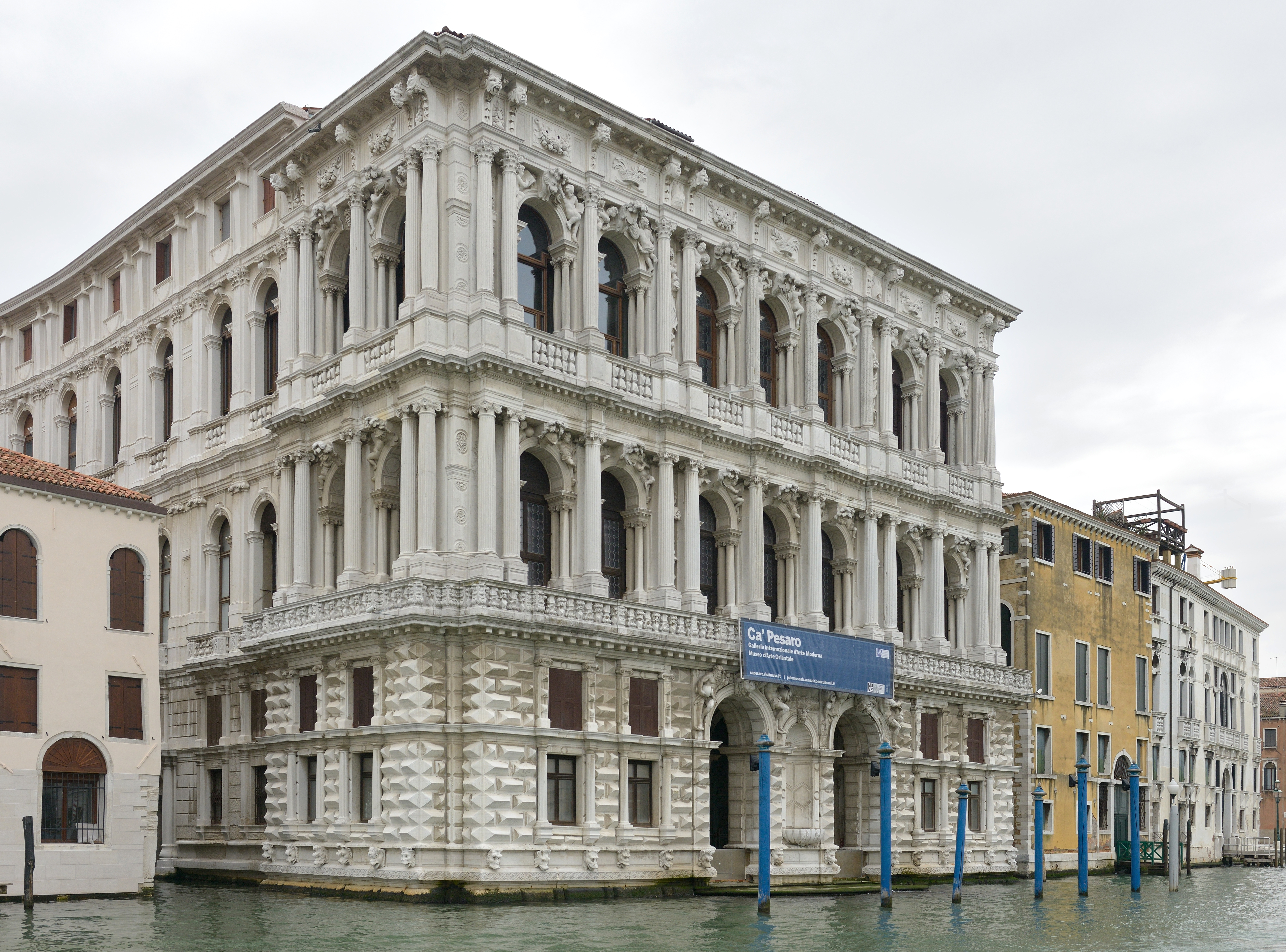 Ca' Pesaro on the Canal Grande in Venice